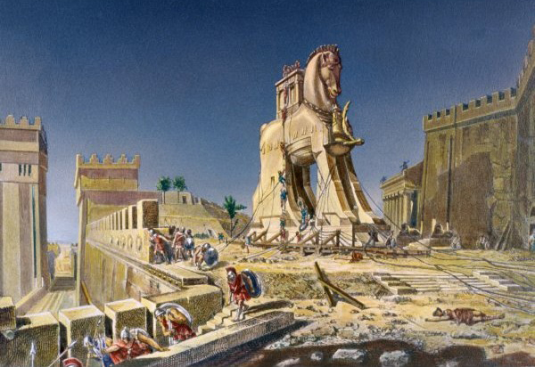 This is a drawing of the Greeks leaving their hiding place inside the Trojan Horse in order to attack Troy. The drawing is based on an oil painting by Henri Motte.